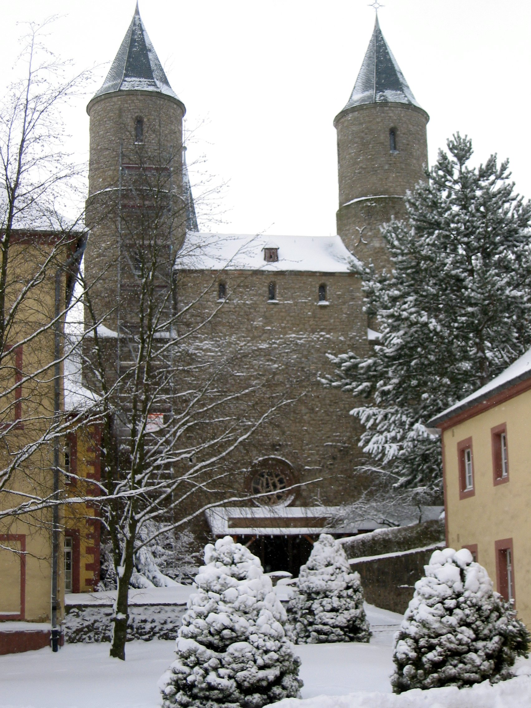 Cloister/convent/monastary Steinfeld in Germany.